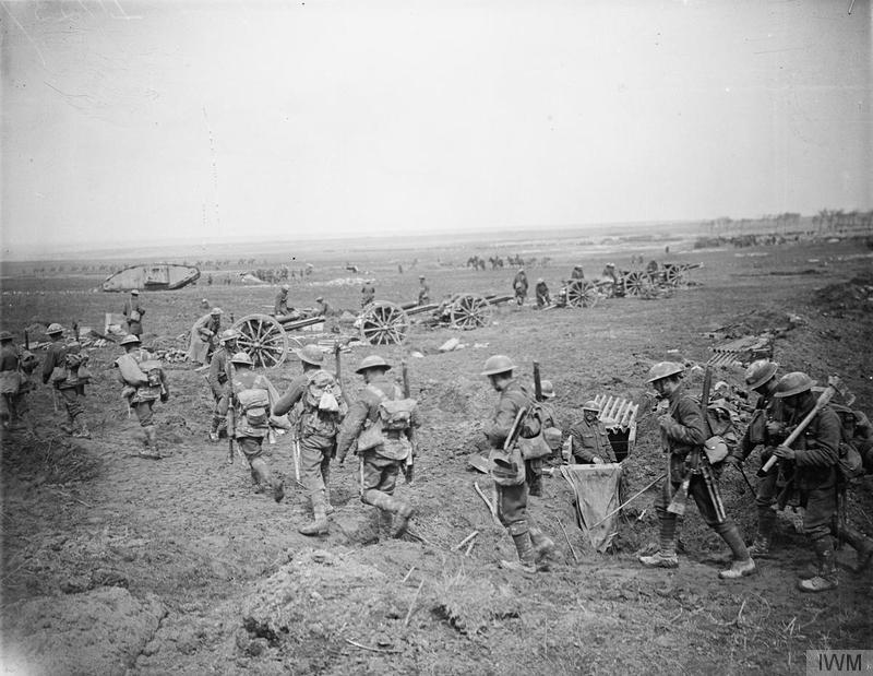 The Battle of Arras, April-may 1917 British infantry coming down from the front line pass a battery of 18-pounder field guns of the Royal Field Artillery established in an open position near Feuchy crossroads, April 1917. Note 'burrys' with corrugated iron roofs and waterproof-sheet ends in abandoned communication trench.